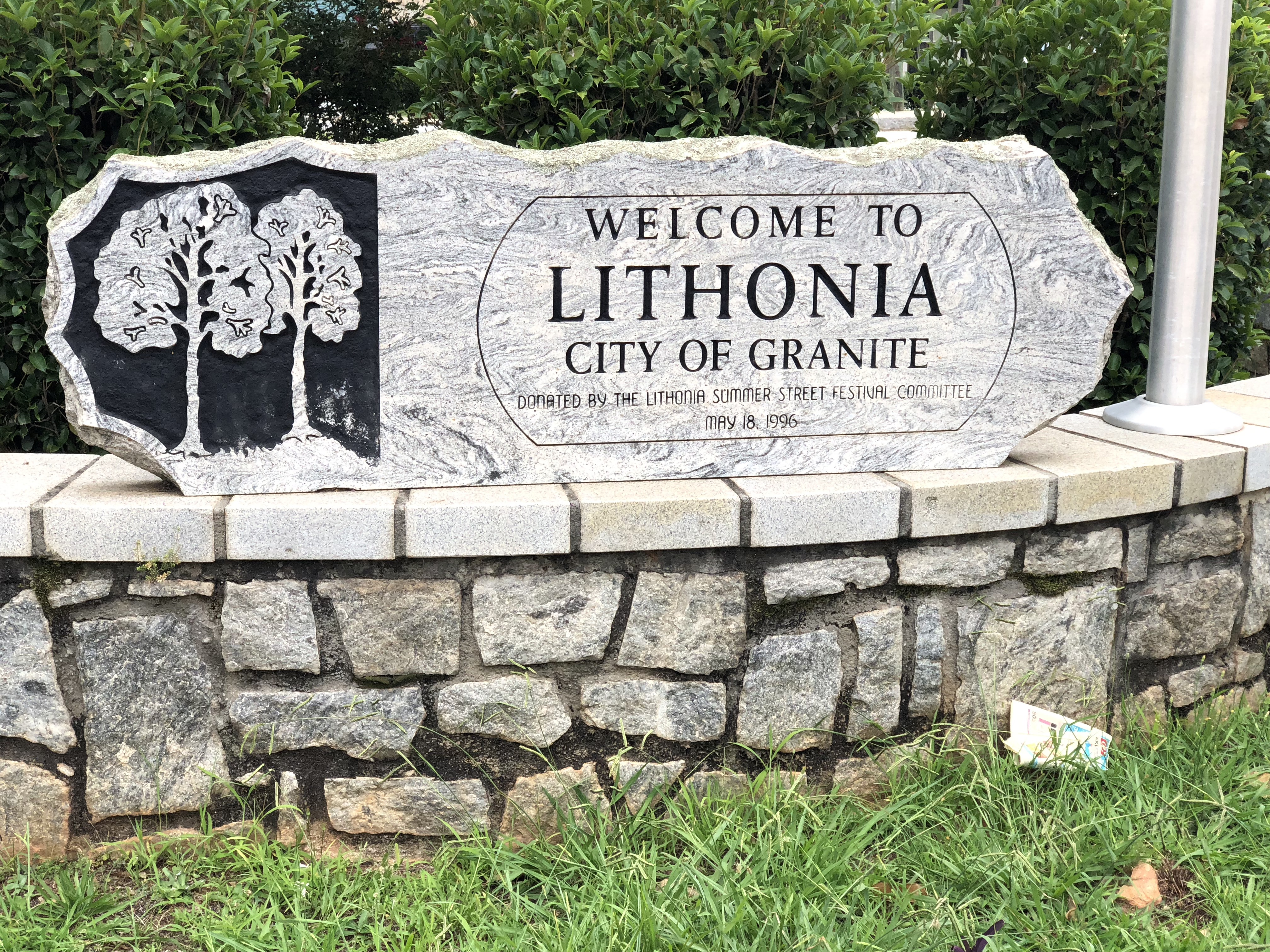 Granite sign at the corner of Main Street and Max Cleland Boulevard in downtown Lithonia, Georgia welcoming visitors to the town.